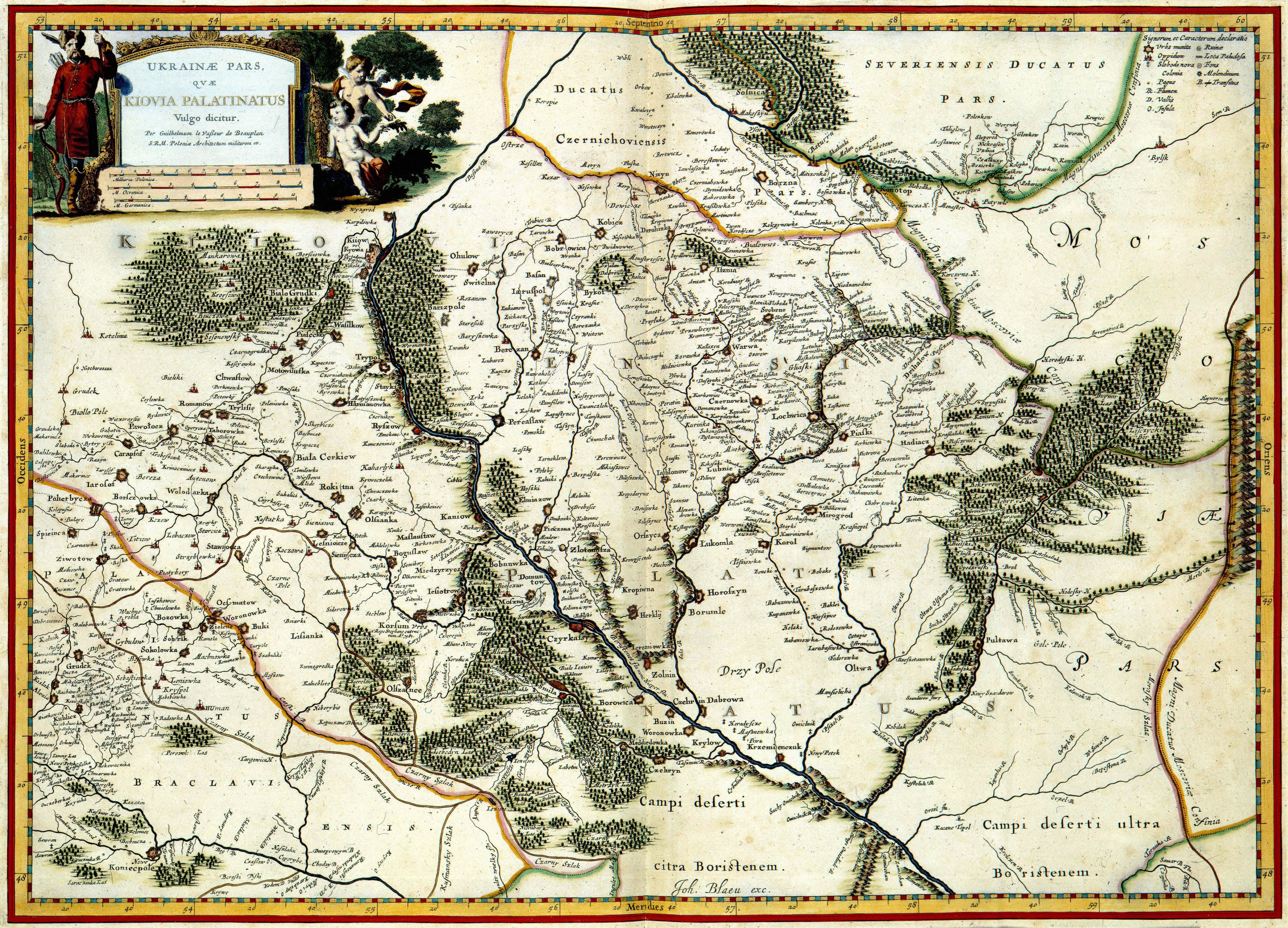 Ukraine. Kiovia Palatinatus